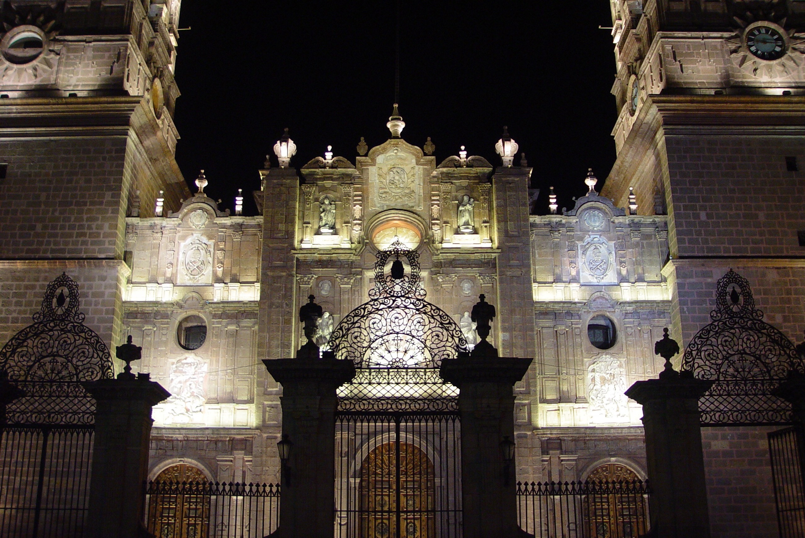 Morelia Cathedral entrance by night, Morelia, Michoacan, Mexico